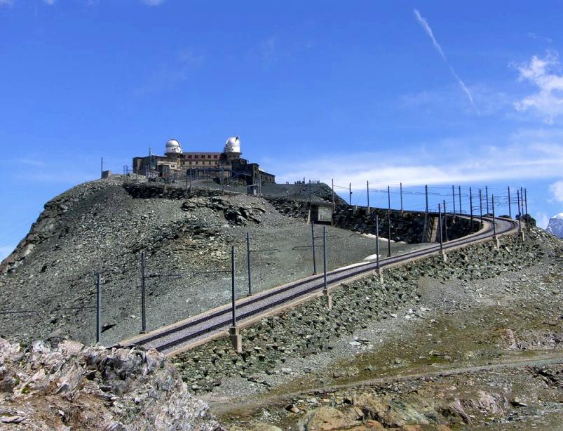 Summit station of Gornergrat with observatory, near Zermatt